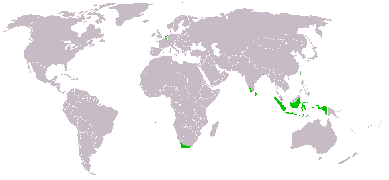 Dominions of VOC